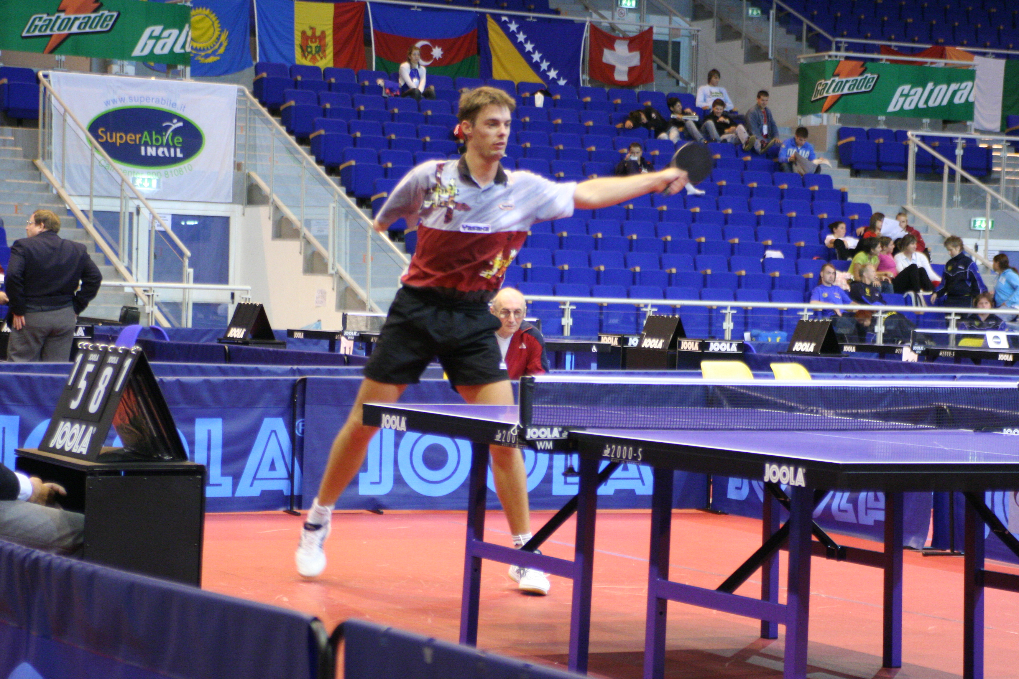 2005 IPC Table Tennis European Championship in Jesolo (Italy) - 15-26 September 2005